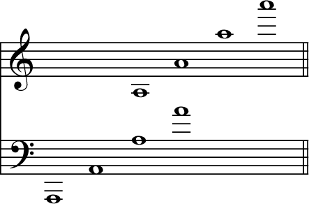 Notes, A